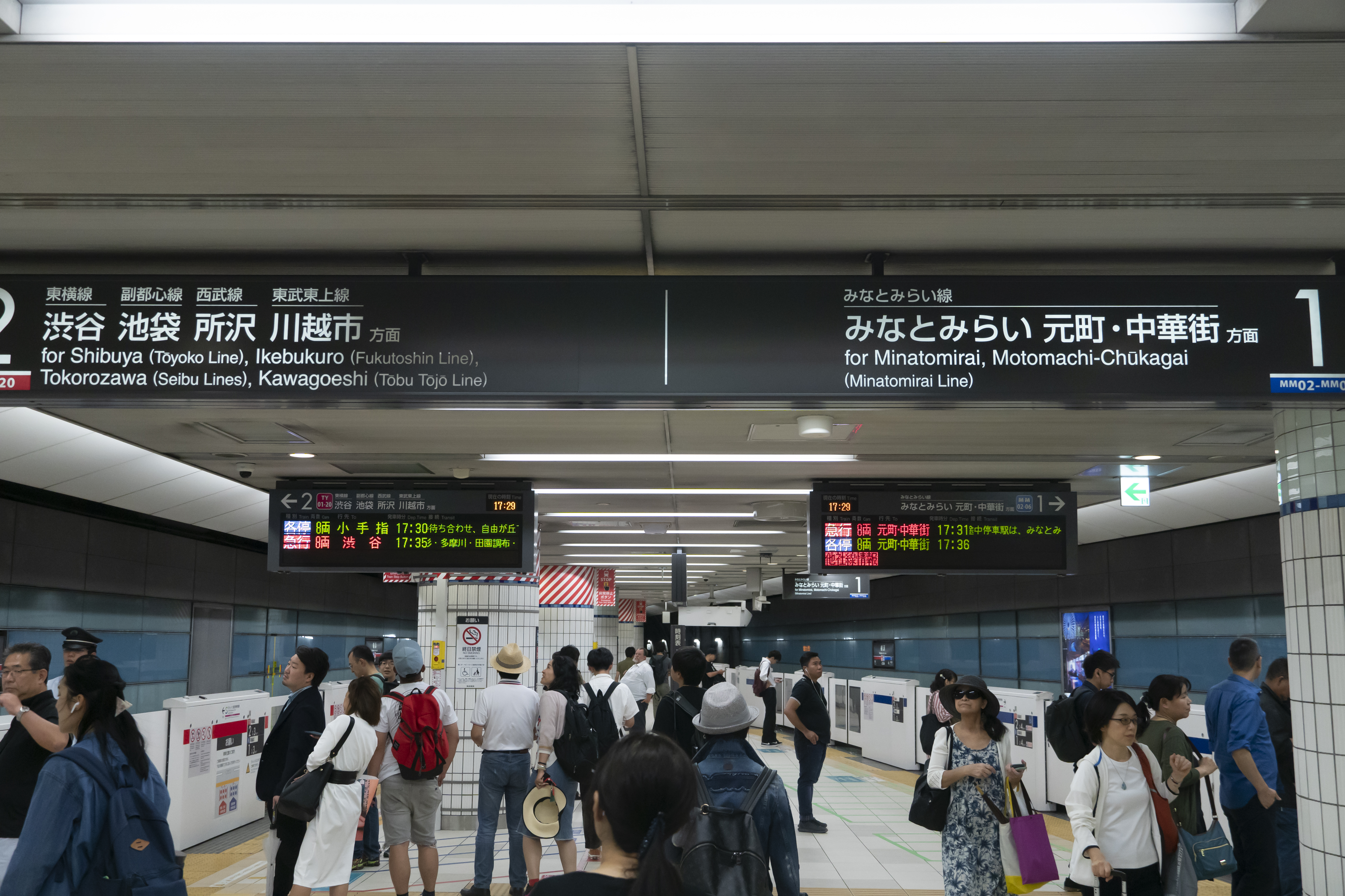 Tōyoko and Minatomirai Line Yokohama Station Platform